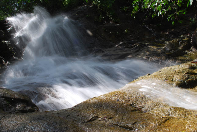 A waterfall in Kanching Rainforest Waterfall. Kanching Rainforest Waterfalls (Hutan Lipur Kanching) is managed by Selangor Forestry Department and Tourism Ministry.